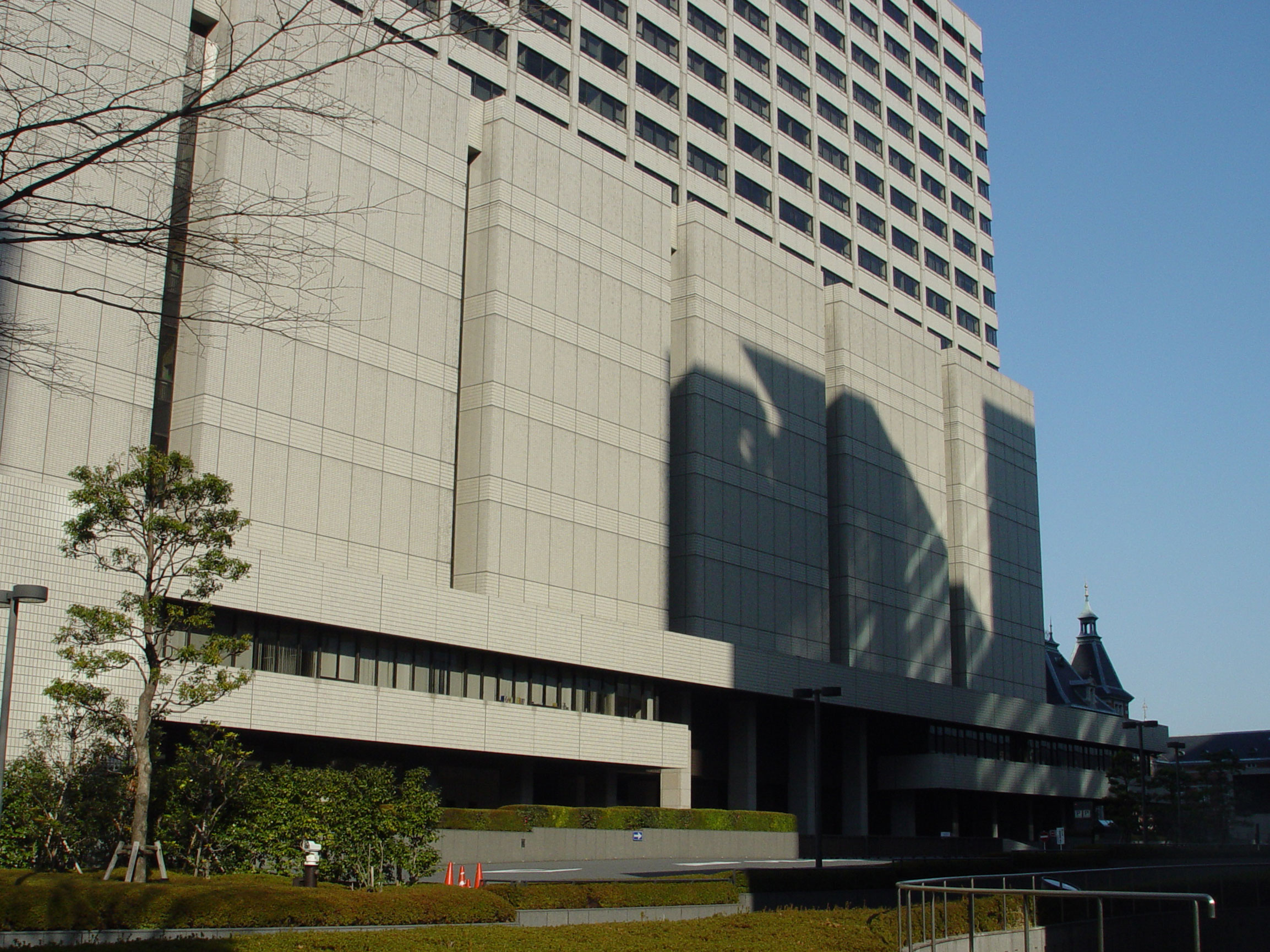 Public office building of Japan: Tokyo High Court 庁舎： 東京高等裁判所